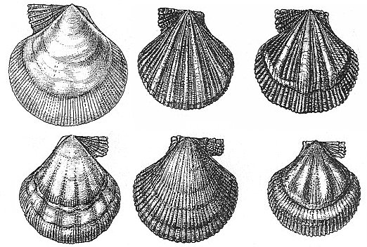 Palliolum_tigerinus from British Pliocene Crag deposits